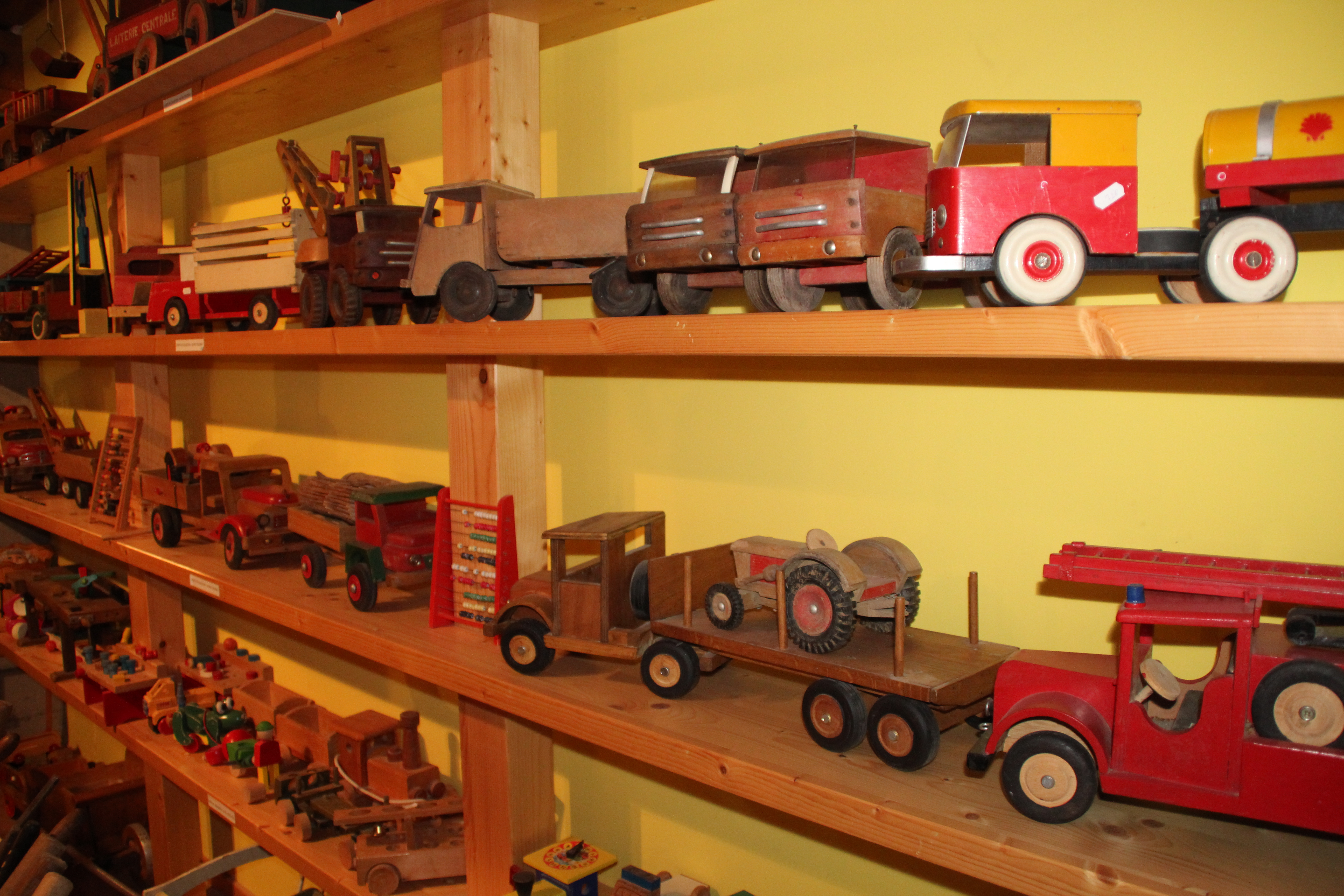 Museum for wood craft and heritage in Labaroche, France.